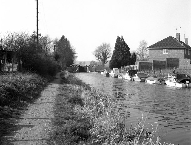 Hungerford Lock No 74, Kennet and Avon Canal In 1976, after walking along the K&A towpath all the way from Reading, it was pleasant to actually see some boats, albeit they were of the type that the seasoned narrow boat enthusiast would refer to scathingly as 'Noddy boats'